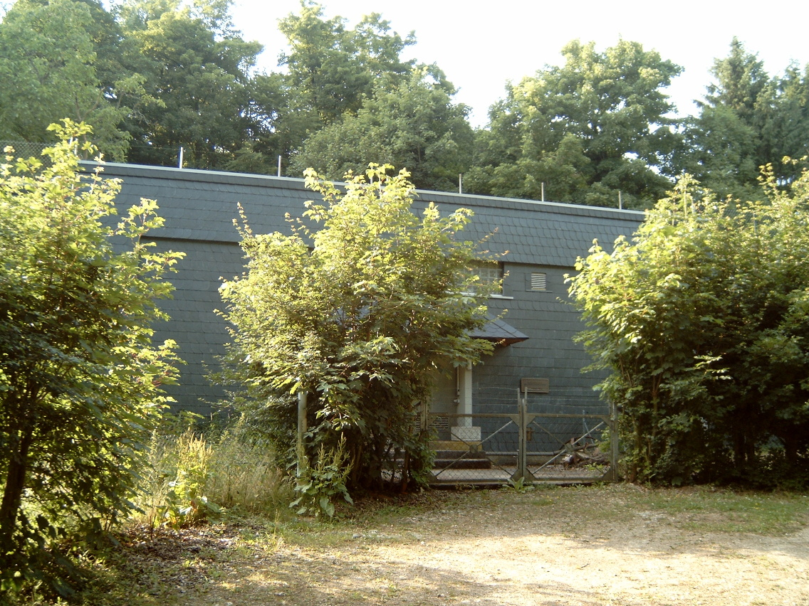 high reservoir on the "Benther Berg"